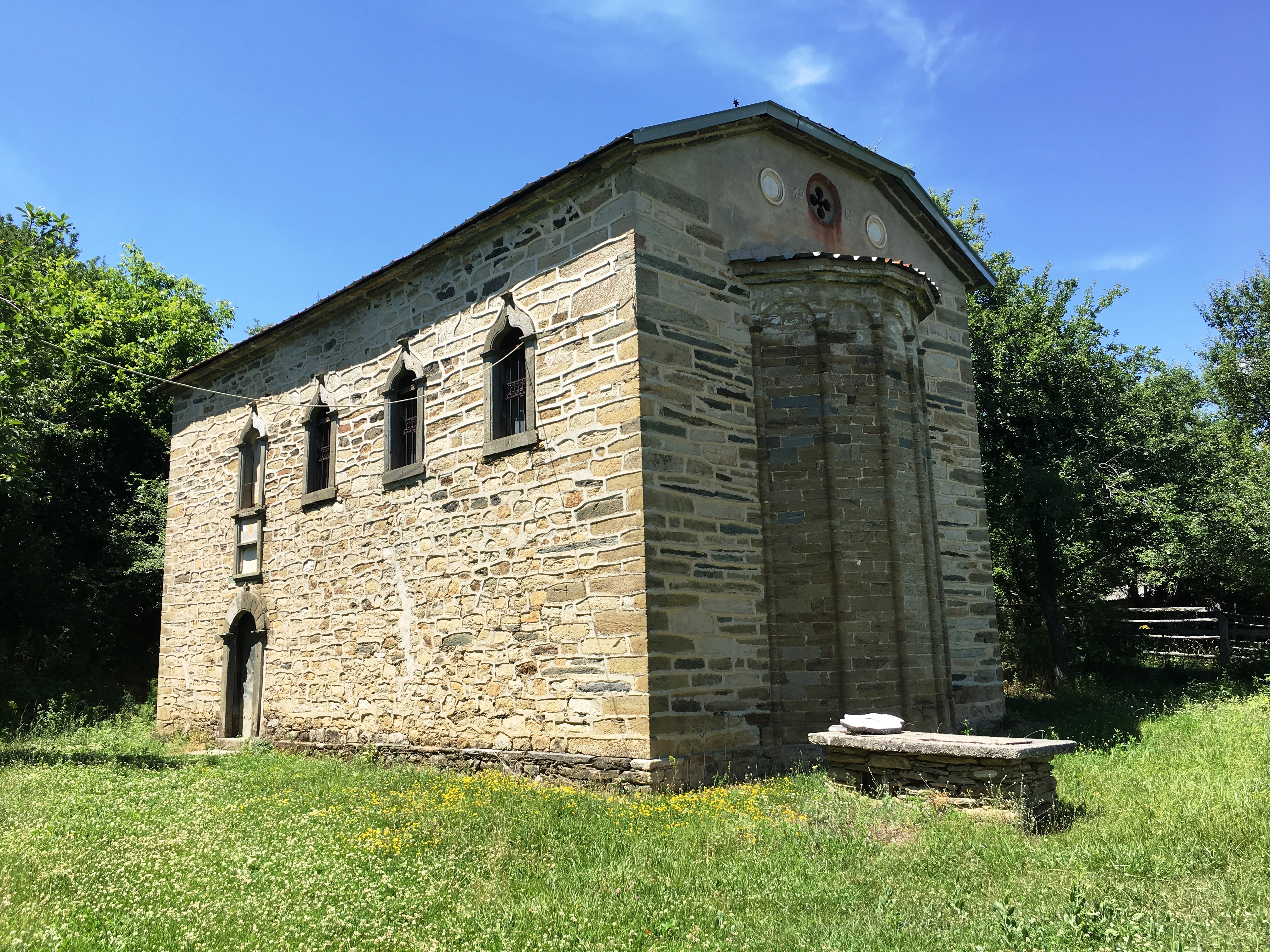 Sts. Constantine and Helena Church in the village of Tomino Selo